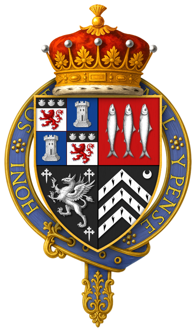 Coat of arms of Sir John Russell, 1st Earl of Bedford, KG, PC Bedford's stall plate remains installed within St. George's Chapel. The arms thereon are quarterly of four" as follows: 1) grand quarter: 1 and 4, argent a lion rampant gules, on a chief sable, three escallops of the first (Russell) 2 and 3, azure, a tower with three turrets argent (de la Tour) 2) gules, three herrings hauriant argent (Herringham) 3) sable, a griffin segreant between three cross crosslets argent (Froxmere) 4) sable, three chevronels ermine with a crescent for difference (Wyse)